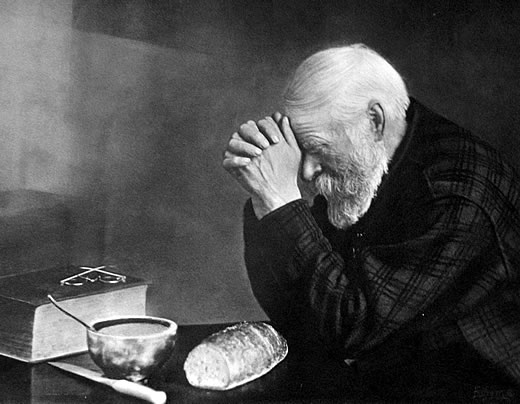 The Minnesota state photograph Grace by Eric Enstrom, depicting travelling salesman Charles Wilden in Bovey. Photograph was published in the United States in 1918 (and therefore public domain).